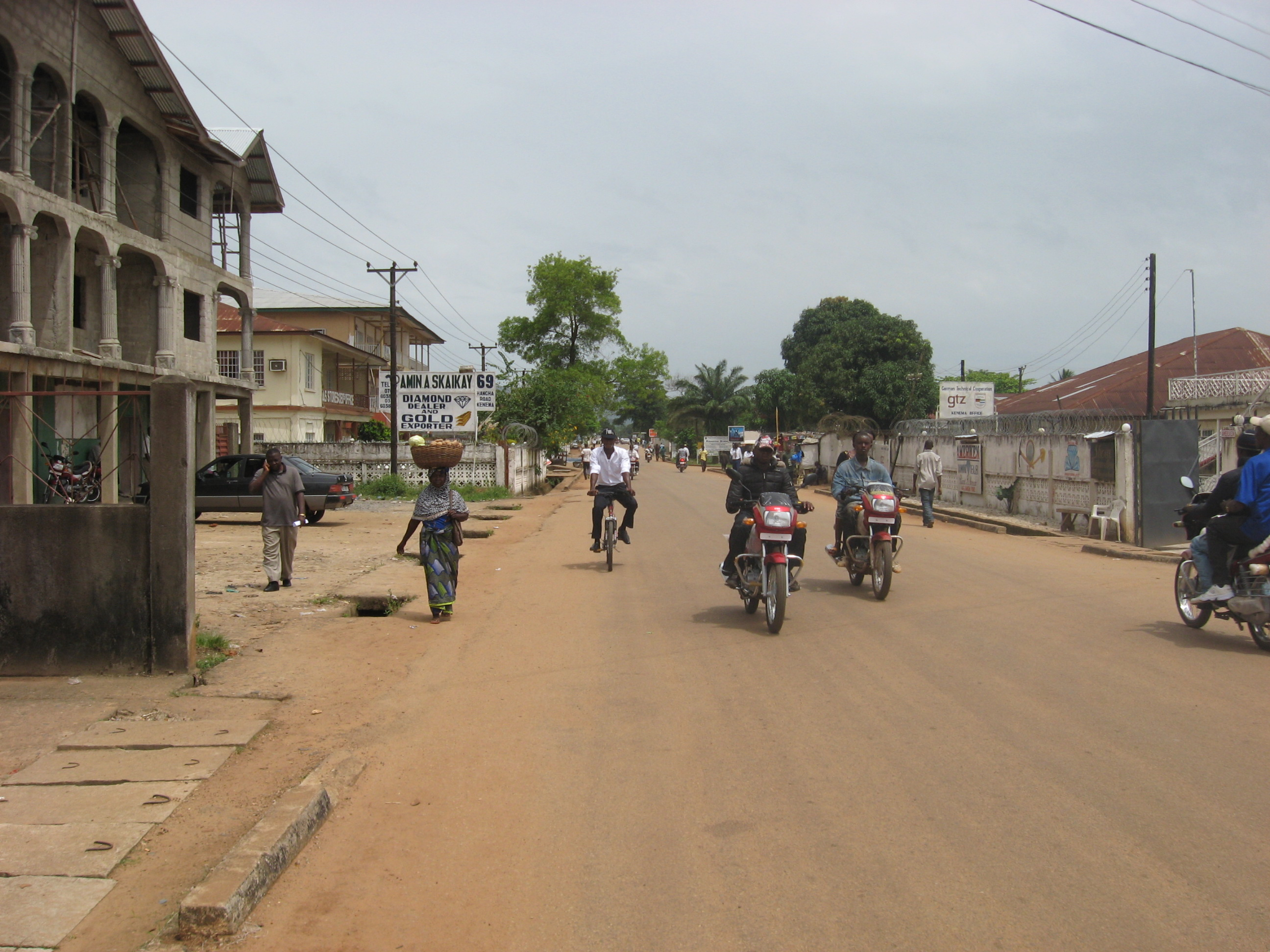 Street in Kenema, Sierra Leone.